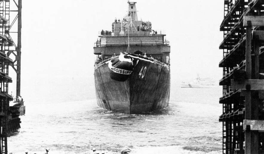 Launch of the U.S. Navy guided missile cruiser USS Mississippi (CGN-40) at the Newport News Shipbuilding and Drydock Company, Newport News, Virginia (USA), on 31 July 1976.